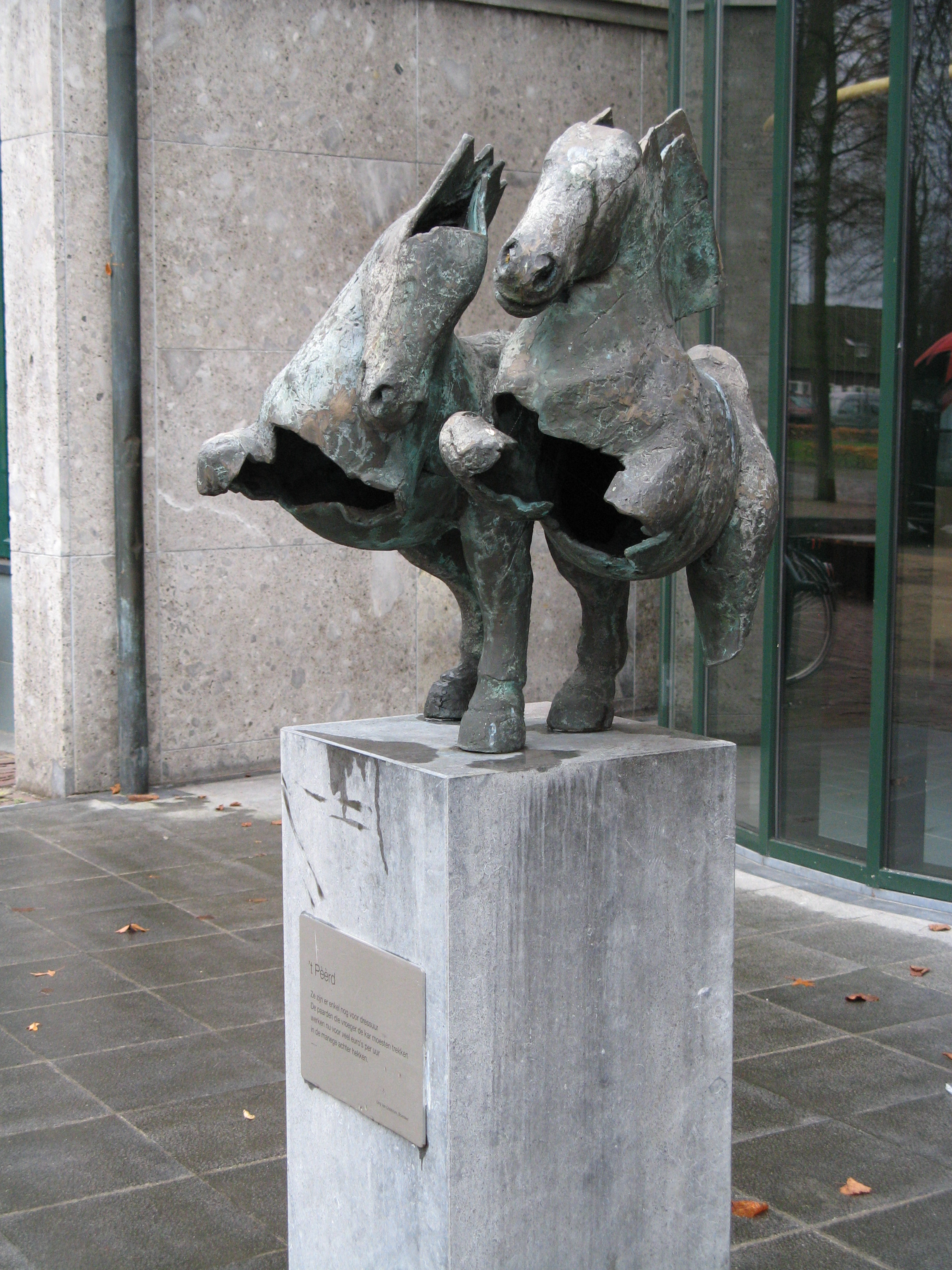 Statue of "Ut Pèèrd" in Sint Anthonis (NL)